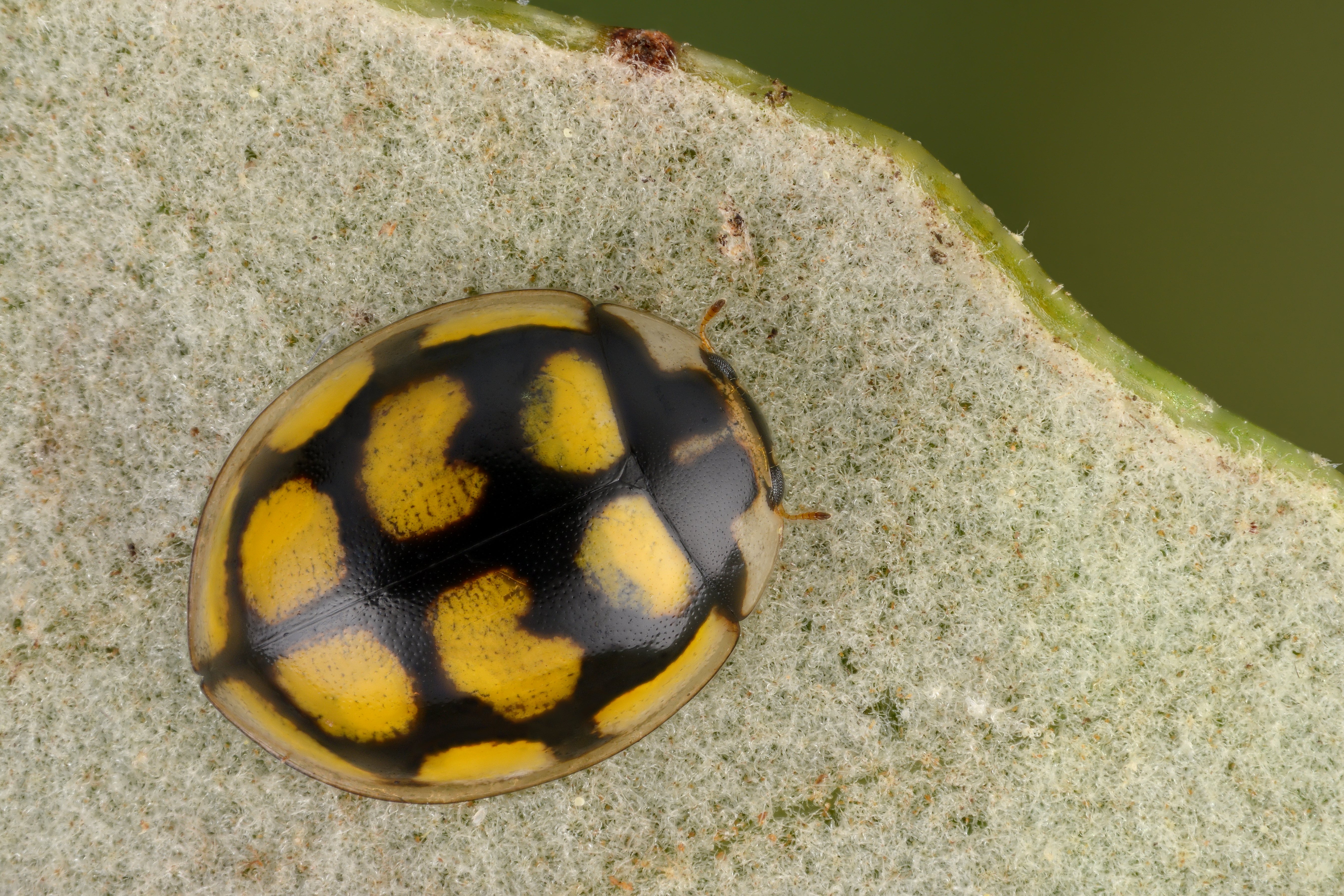 Ladybird beetle Oenopia lyncea. Length 3–4.5 mm. Southern France.